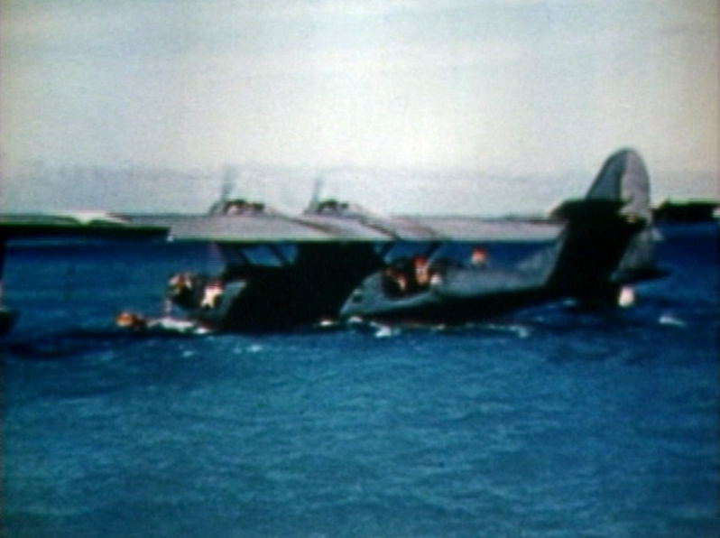 A U.S. Navy Consolidated PBY-5 Catalina off Sand Island, Midway Islands, after having returned from a patrol in late May or early June 1942.